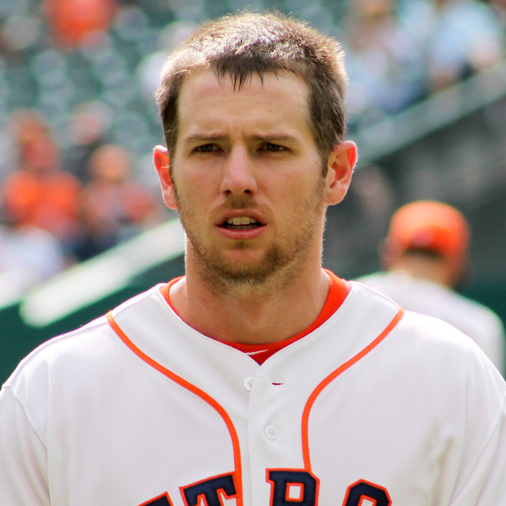 Houston Astros player Alex Presley during a May 2014 game in Houston